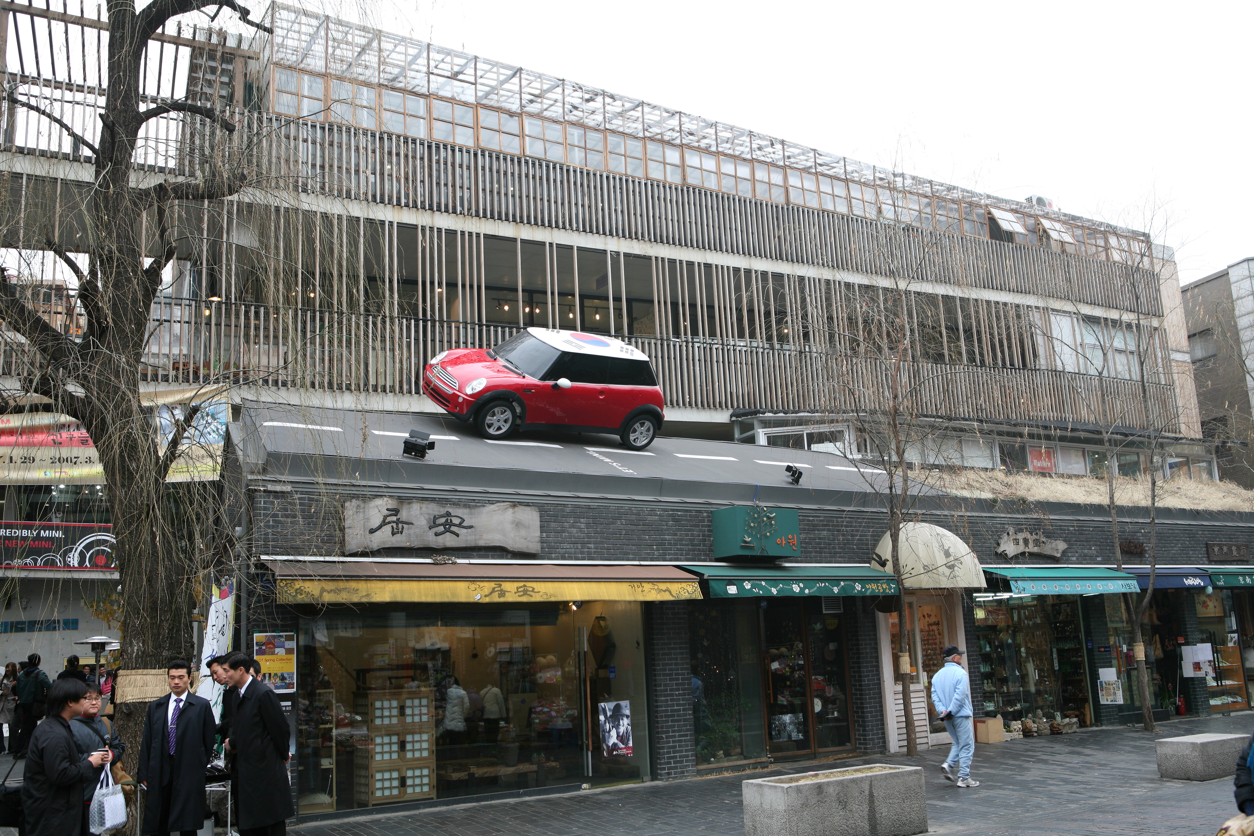 A view of streets in Insadong, Seoul